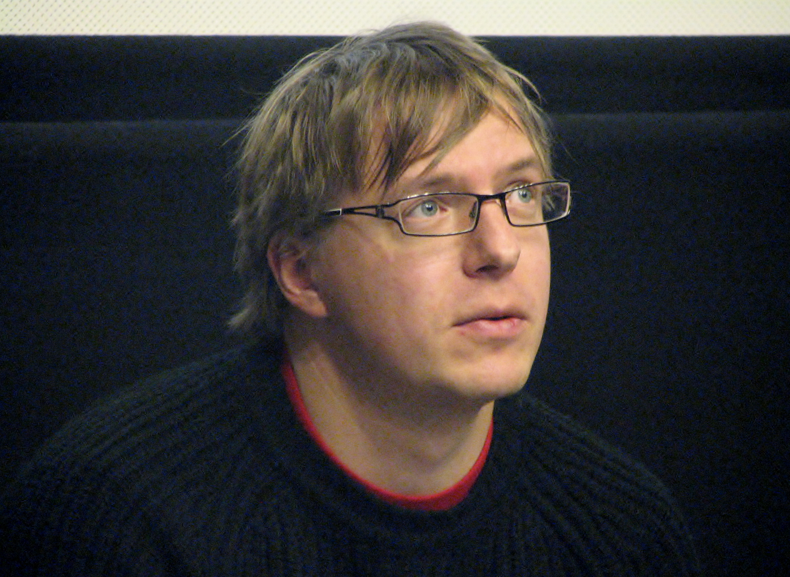 Urmas Vadi performing during 16th Tallinn Black Nights Film Festival